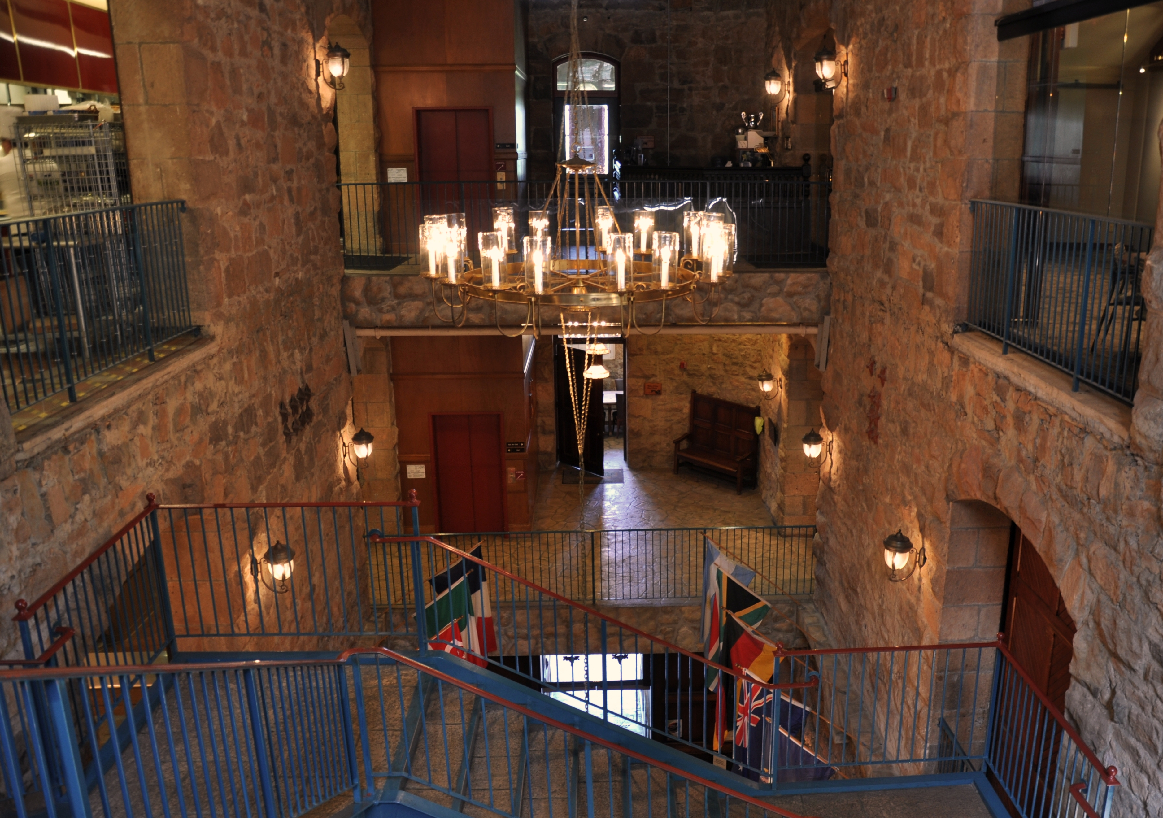 Halls of the main facility at The Culinary Institute of America at Greystone